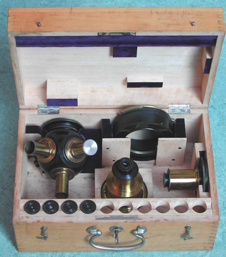 Eyepieces of 1 meter Zeiss telescope at Merate Astronomical Observatory, Merate (LC), Italy.